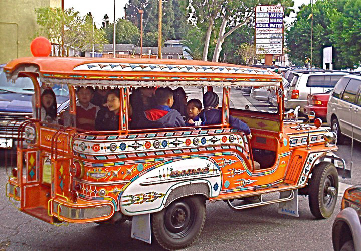 Took this photo during our family's celebration of in Historic Filipinotown. Kids inside the Jeepney are my nephews and nieces, and their friends.